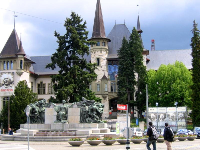 the entrance of Historic museum of Bern